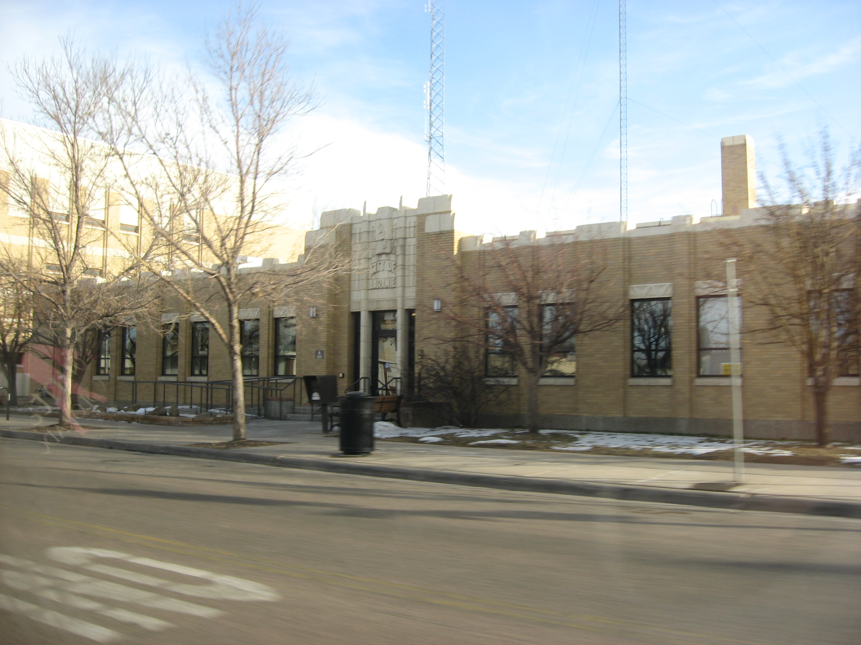 City Hall in Laramie, Wyoming, United States, located at 406 Ivinson Street.